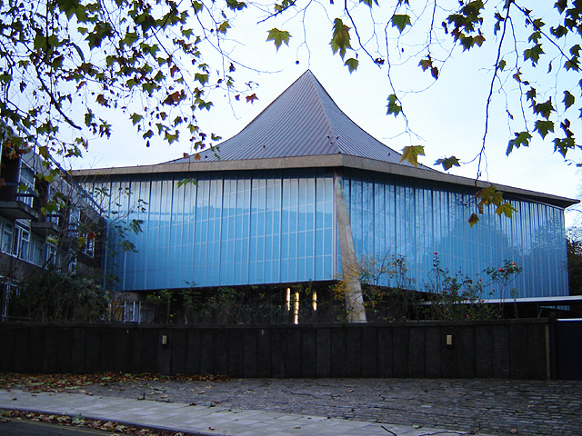 The Commonwealth Institute, Kensington High Street, Kensington, London. 25 November 2005. Photographer: Fin Fahey.